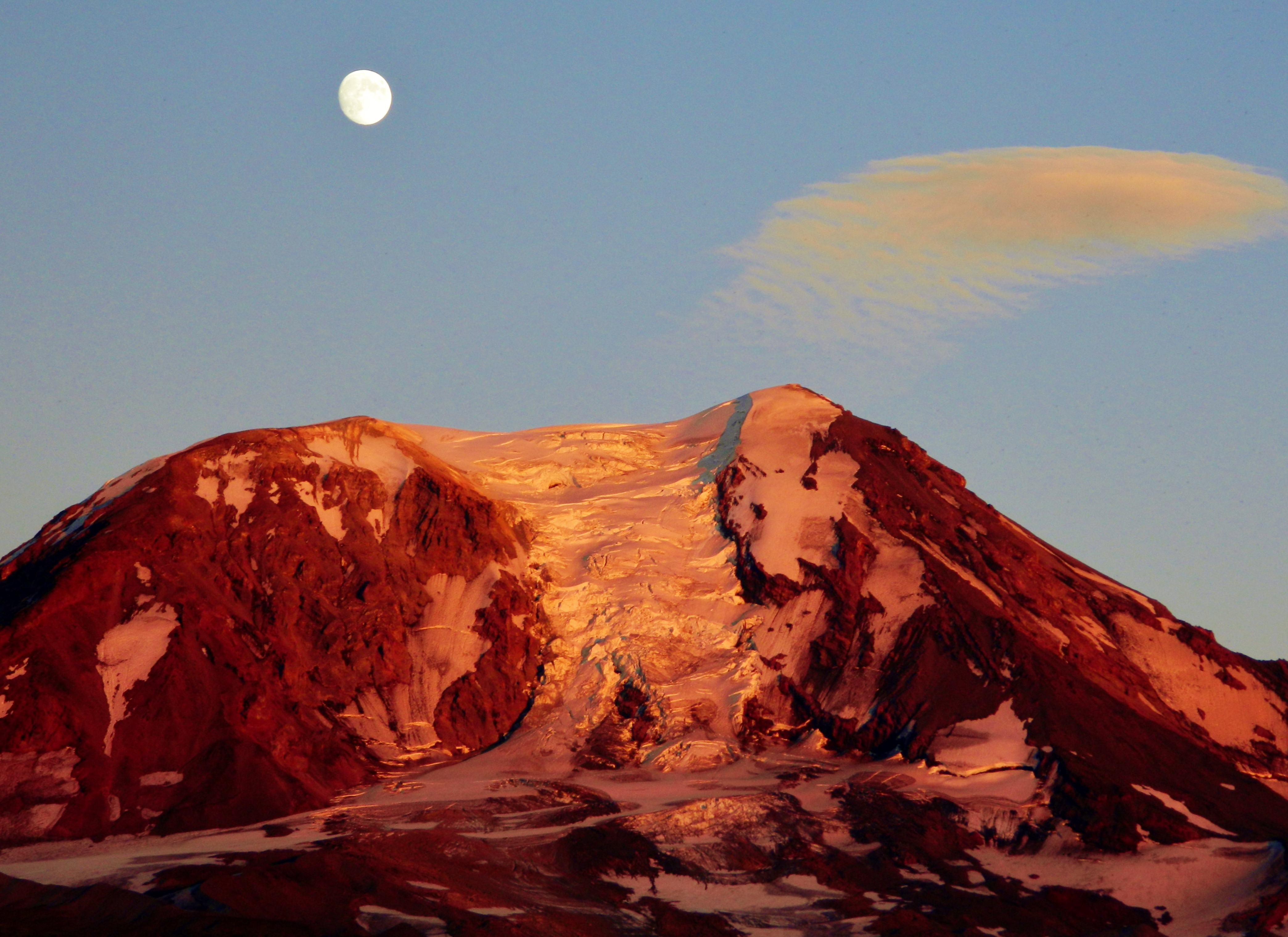 Adams Glacier cascades down the center, shown here. This is the view from High Camp.